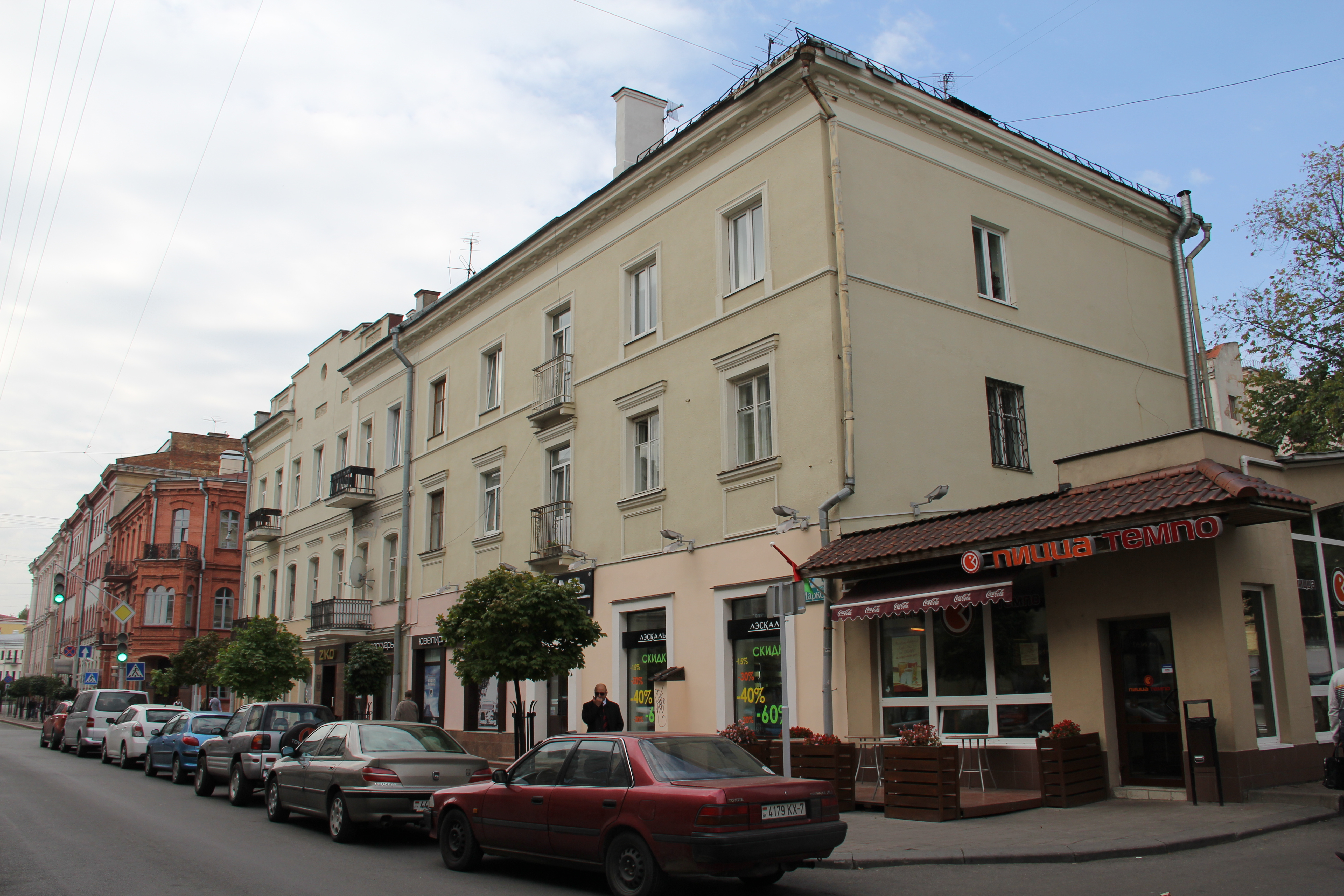 Беларуская (тарашкевіца): Будынак. г. Менск This is a photo of Belarusian heritage monument. Reference number: 713Г000114 ( WLM)